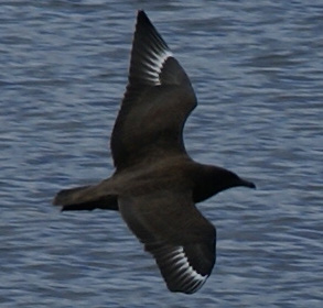 Great Skua; picture taken at Mousa, Shetland, Scotland